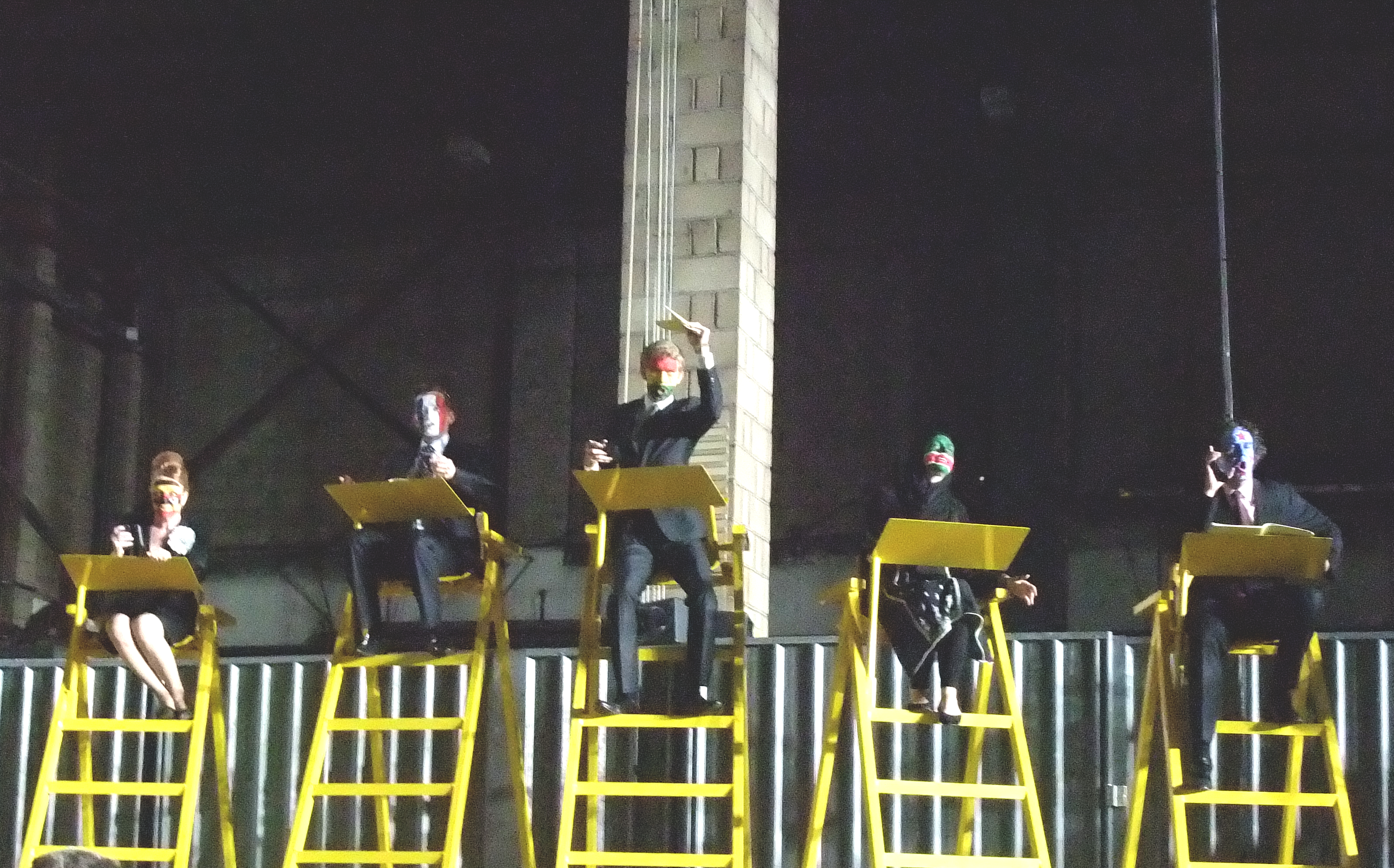 A parliamentarian argues a point in Welt-Parlament (World Parliament), scene 1 of Karlheinz Stockhausen's opera Mittwoch aus Licht. Birmingham Opera production, Argyle Works, Digbeth, Birmingham, 24 August 2012. Photo by Jerome Kohl.